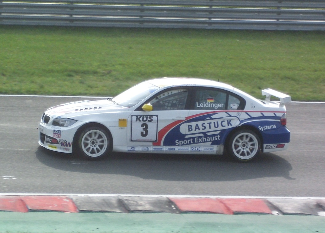 Championship: ADAC Procar; Racetrack: Motorsportarena Oschersleben; Driver: Johannes Leidinger (Germany); Team: Liqui Moly Team Engstler; Car: BMW 320si; Point: Sunday morning, first race